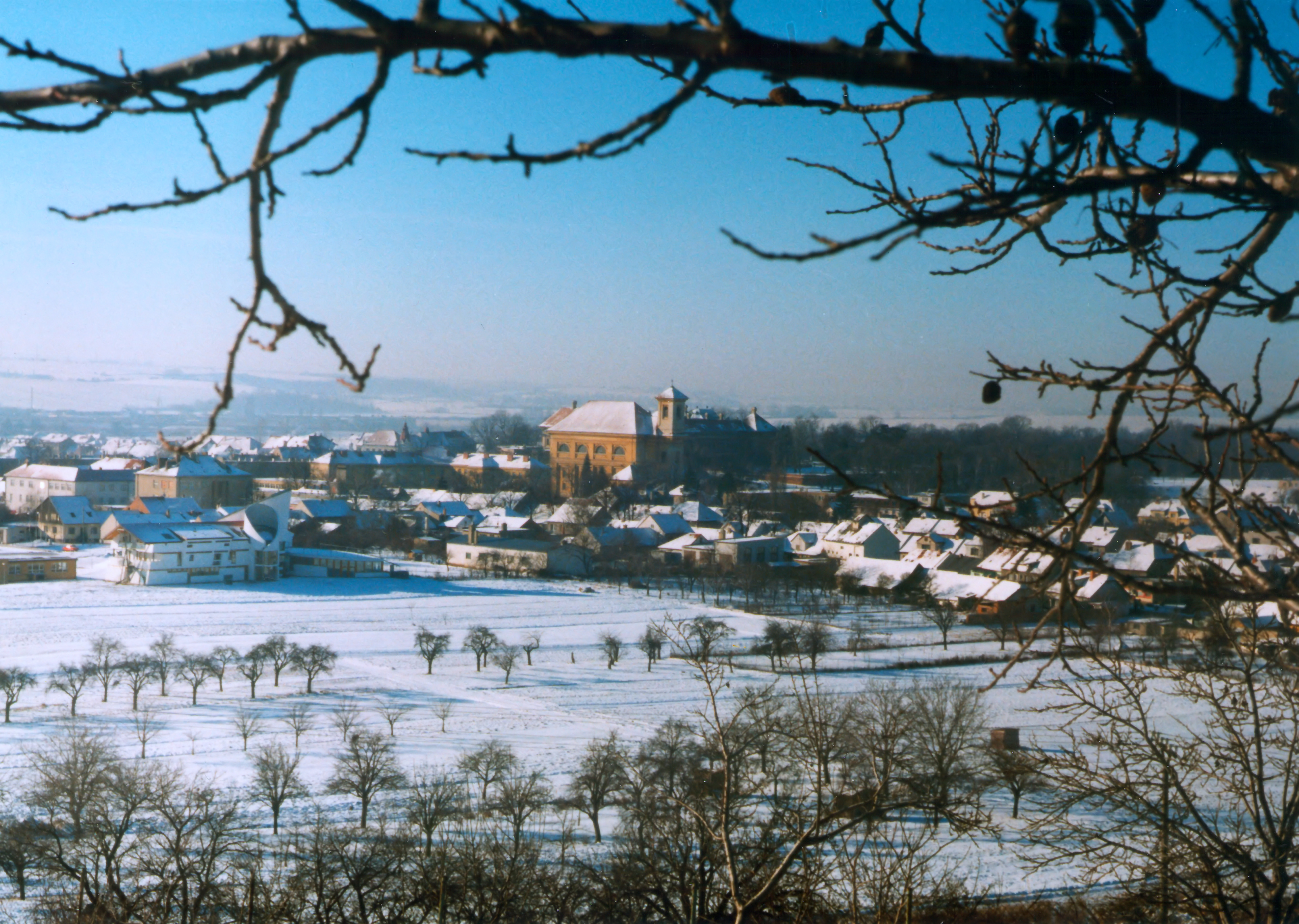 Winter view on Slavkov u Brna - Austerlitz, Czech Republic.